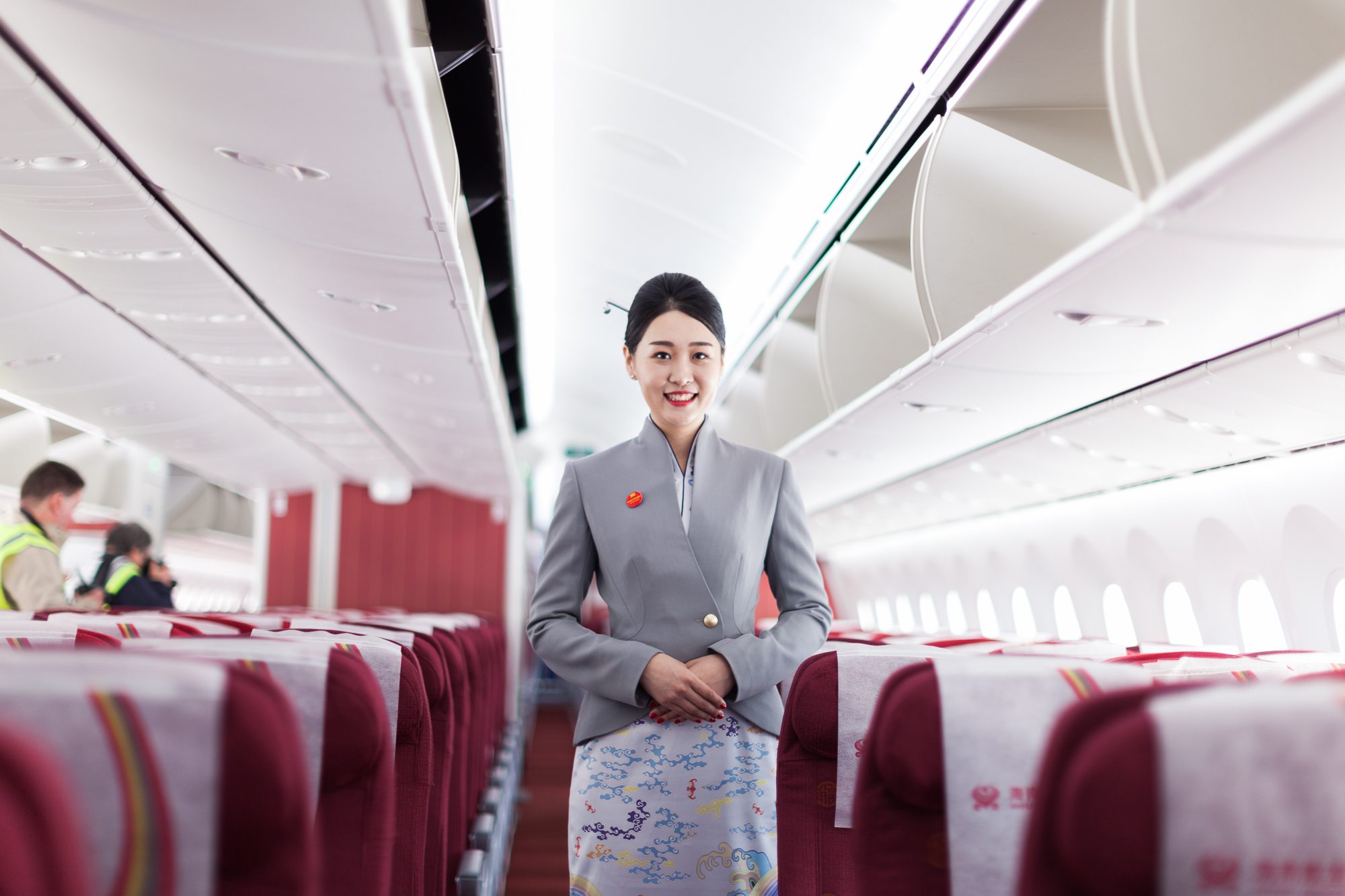 Shanghai inaugural flight